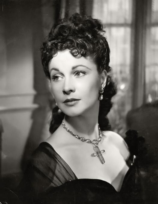 Vivien Leigh as Anna Karenina in "Anna Karenina" (Film still)